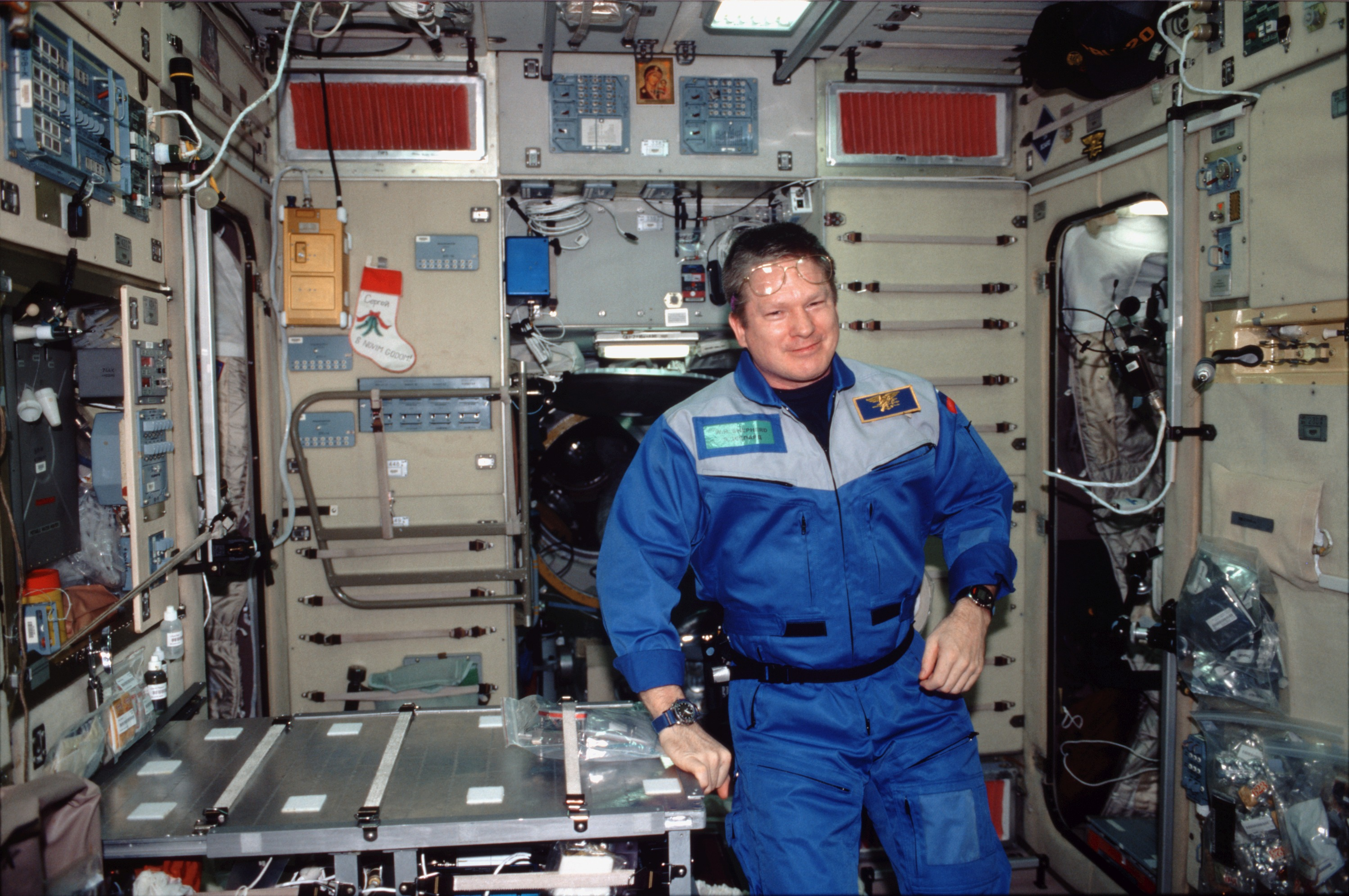 Astronaut William M. (Bill) Shepherd, Expedition One commander, poses for a a photo at the ward room table while hosting members of the STS-98 crew (out of frame) onboard the International Space Station (ISS). Shepherd and two cosmonauts, onboard the outpost since early November 2000, will return to Earth with their third set of visitors (the STS-102 crew) in March of this year.